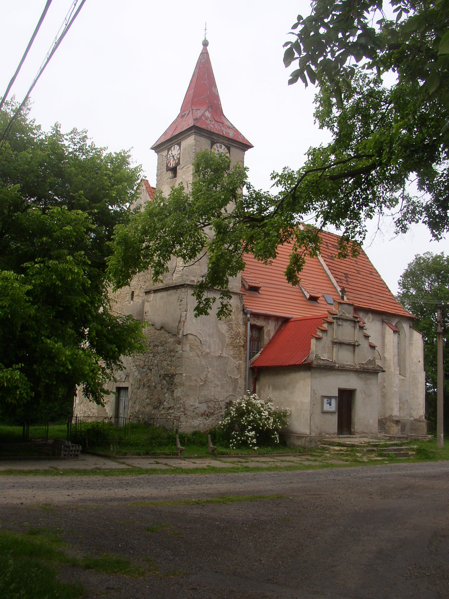 Gothic church of the Assumption in Hostín u Vojkovic, Mělník District, Czech Republic.